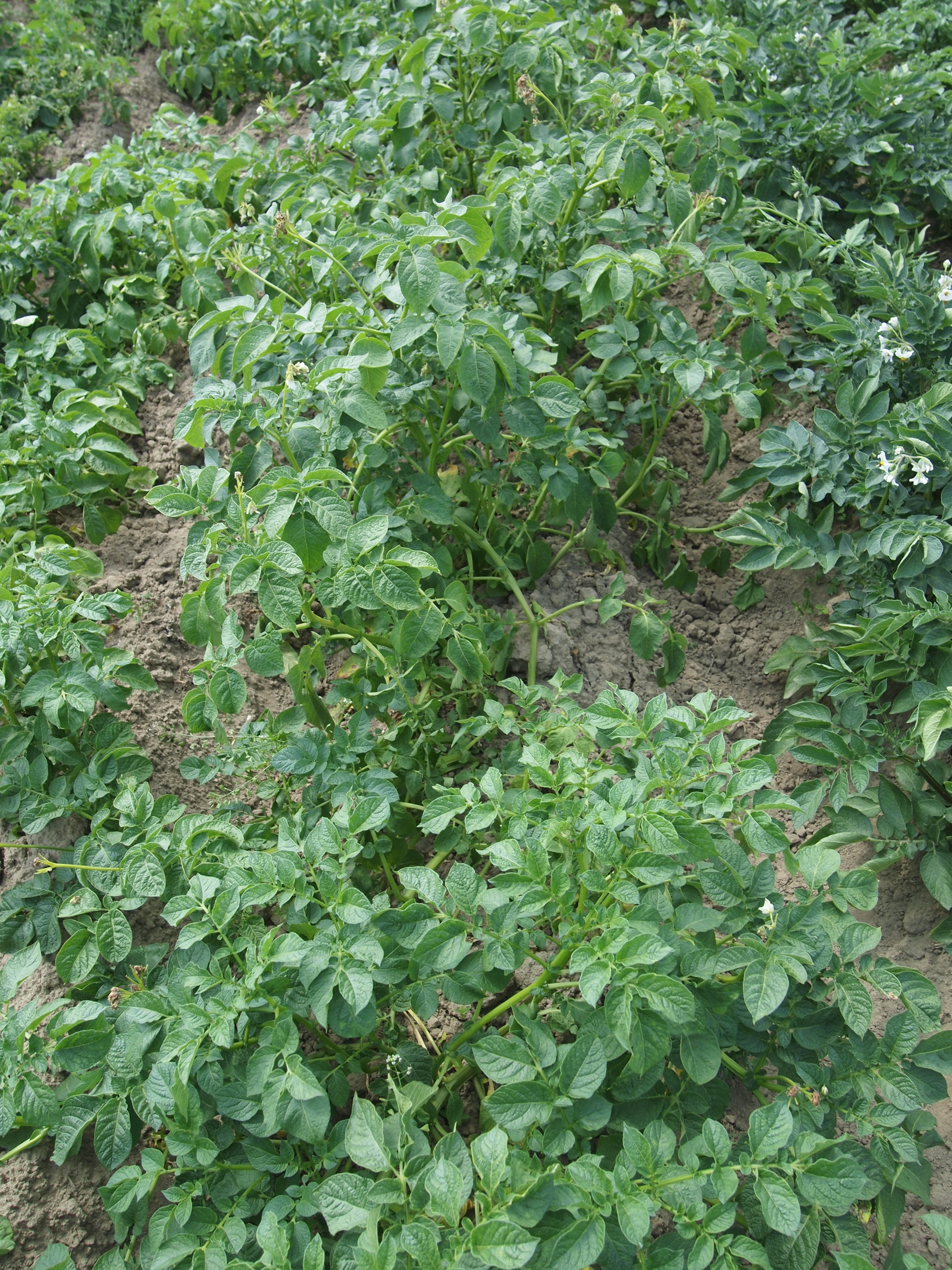 This potato-picture was taken by Ordercrazy with permission of Christian Müller from Aletshofen, municipality of Ettringen, Germany.